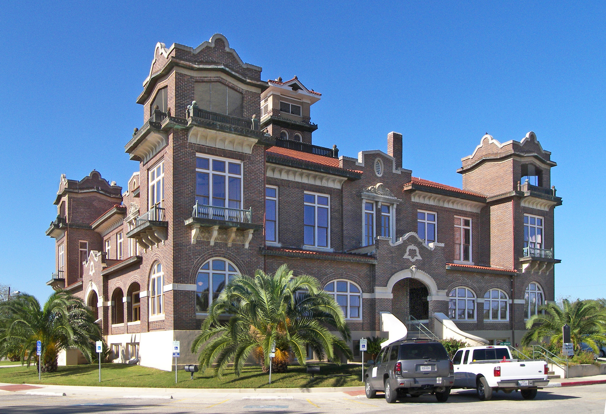 The Atascosa County, Texas courthouse located in Jourdanton, Texas, United States. The Mission Revival style building was completed in 1912. The courthouse was listed on the National Register of Historic Places on December 30, 1997.